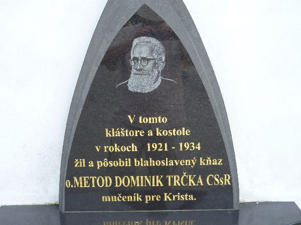 The memorial of blessed Methodius Dominik Trčka C.Ss.R. in Stropkov (Slovakia)